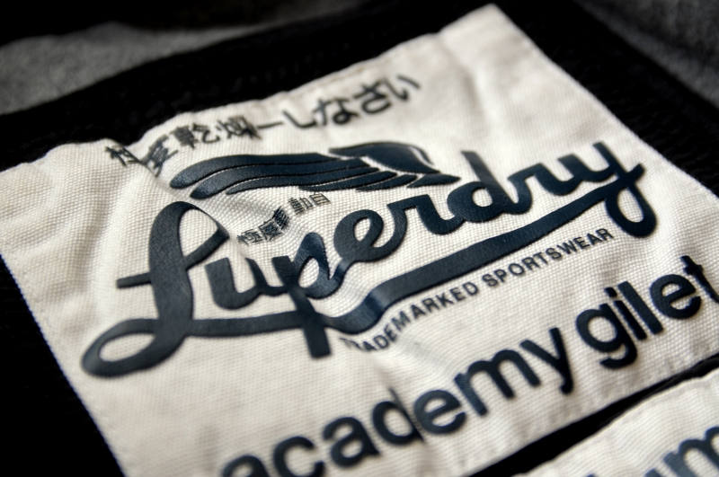 Superdry label